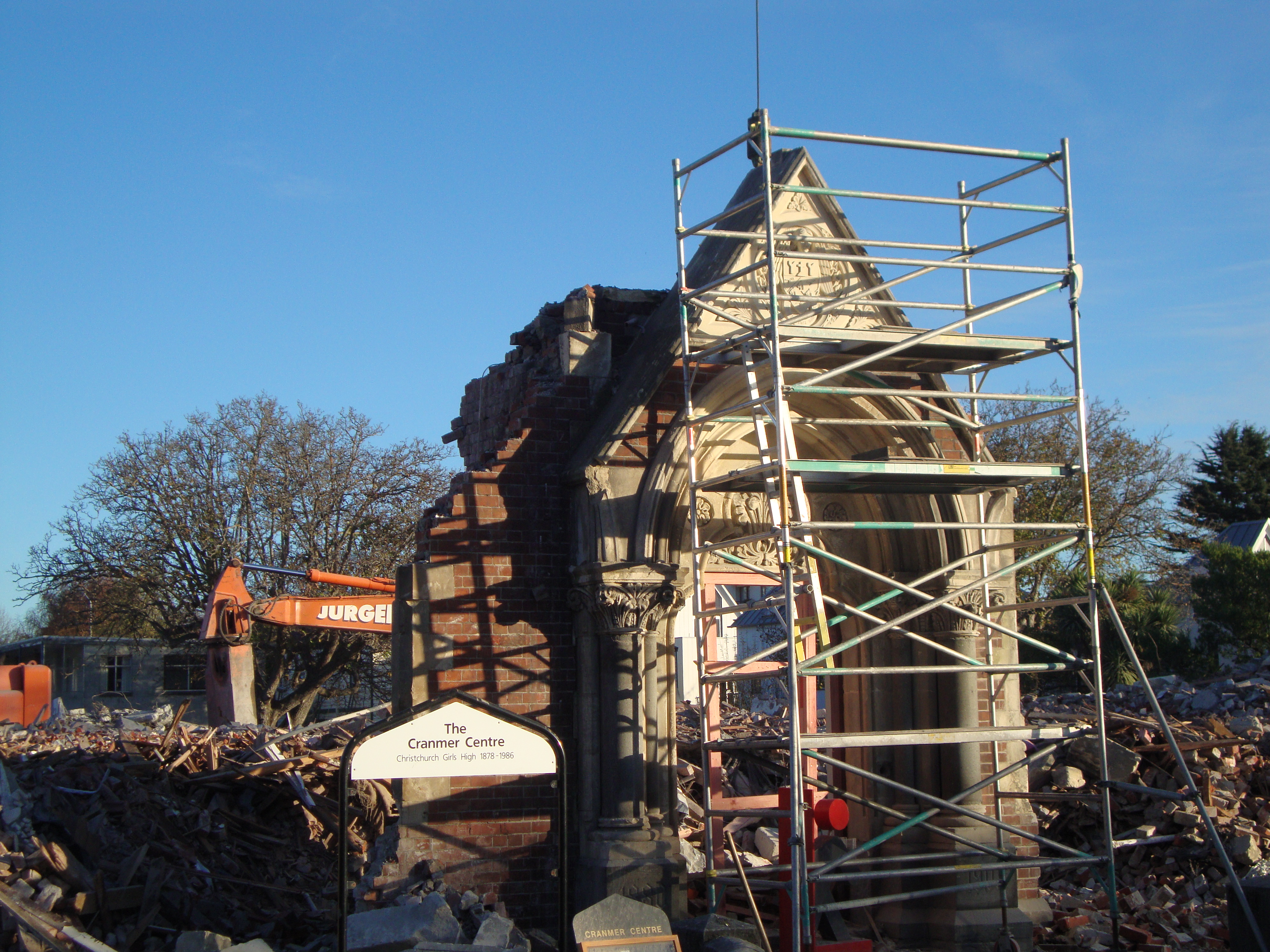 The entrance portal of the Cranmer Centre on 23 May 2011 - all that's remaining of the building after demolition.